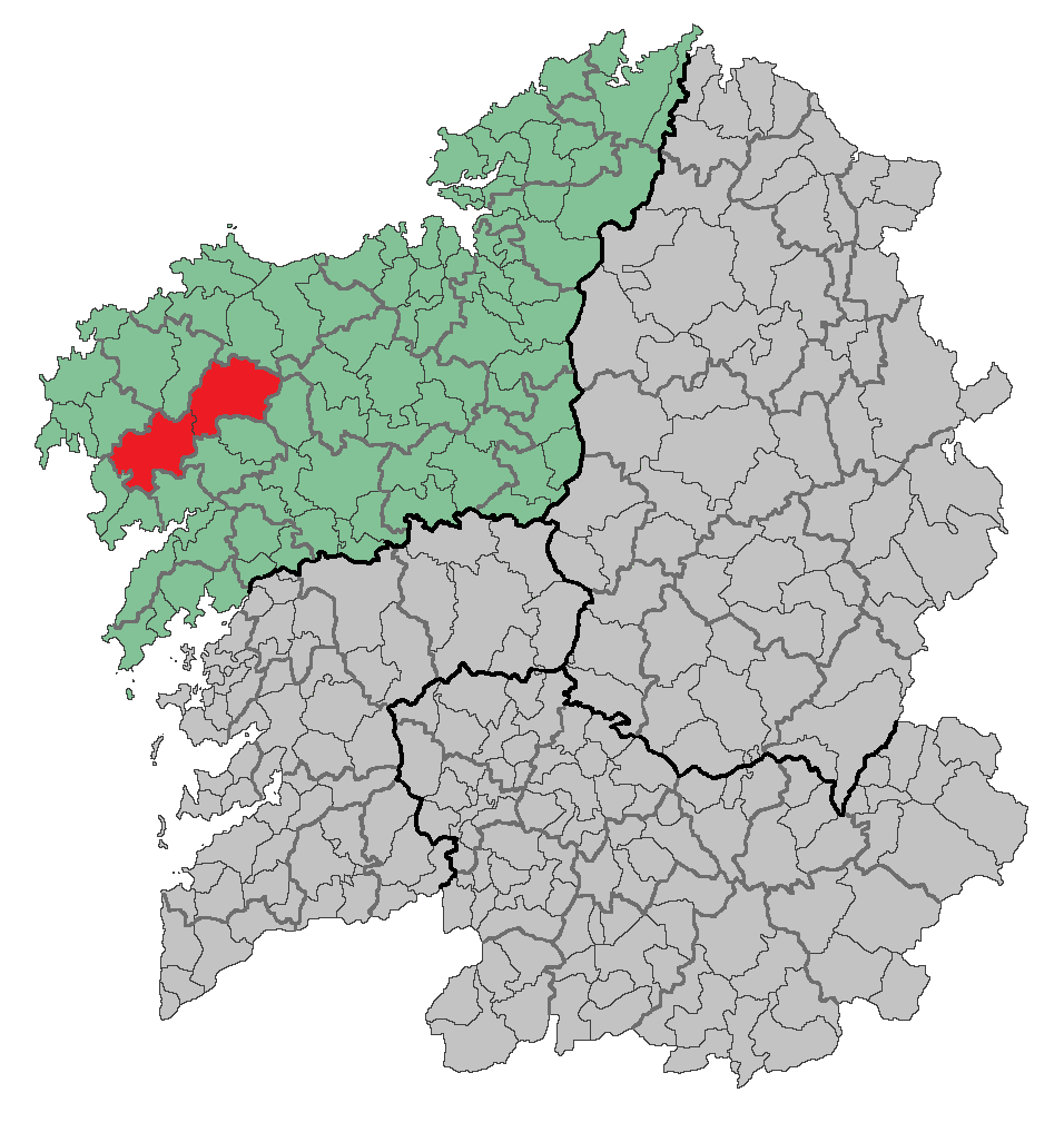 Region of Galicia (Spain)Based in: Image:Location of Santa Comba.png Source: Designed by Leoplus. Original picture, designed by Caiser over a work made by Alyssalover.